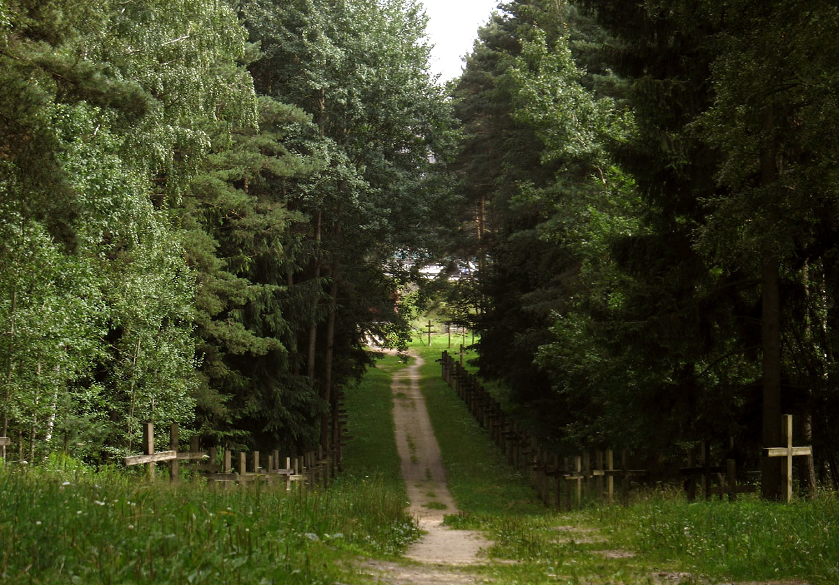 Kurapaty near Minsk is the place where mass executions of Belarusian civilians were carried out during the Stalin regime (1937 - 1941) Беларуская (тарашкевіца): Урочышча Курапаты пад Менскам — месца масавых расстрэлаў і пахаваньняў беларускіх цывільных асобаў, зьдзейсьненыя падчас сталінскіх рэпрэсіяў у 1937—1941 гадох